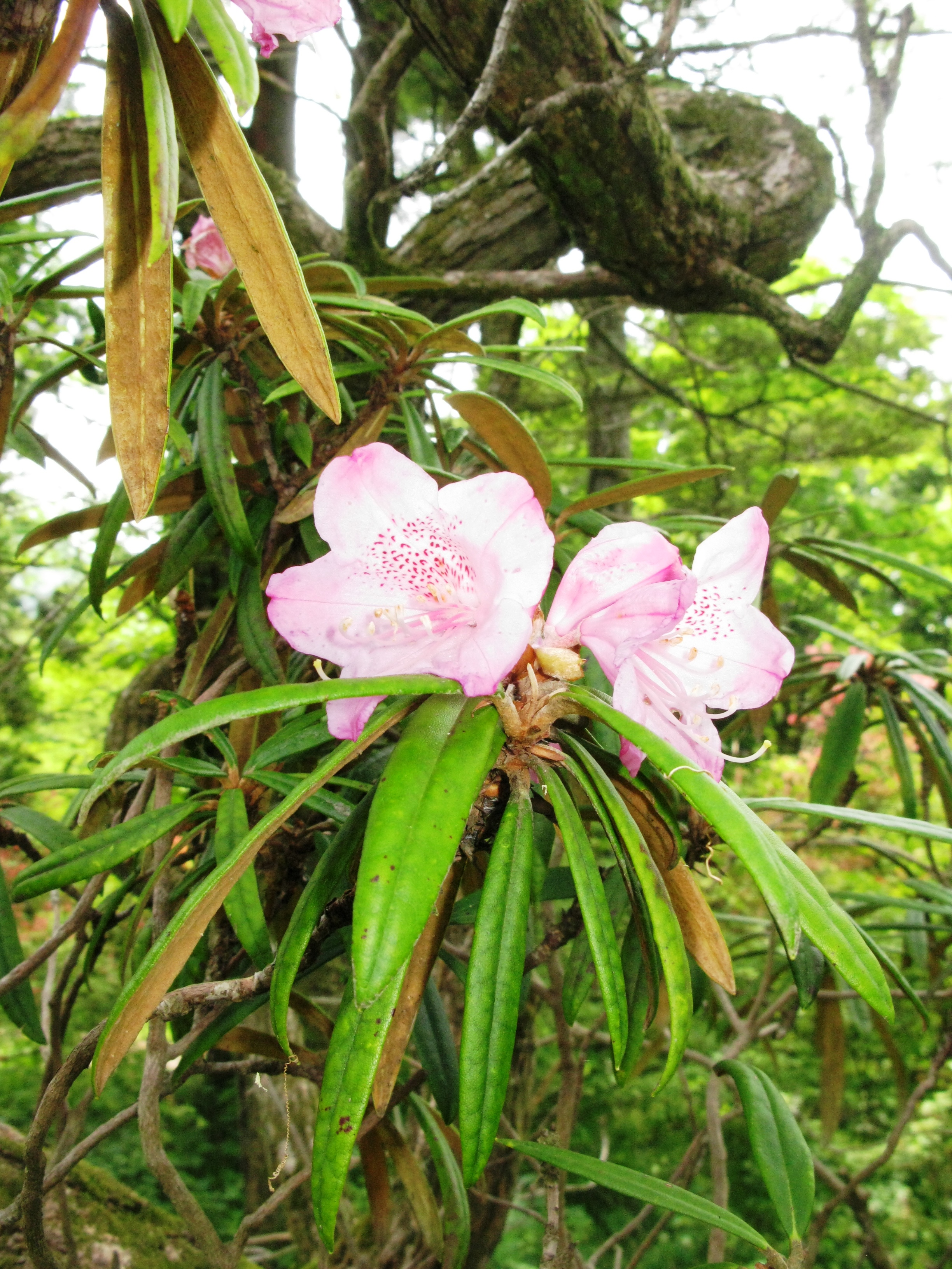 Rhododendron makinoi, Botanical Gardens, Nikko, The University of Tokyo, Tochigi pref., Japan